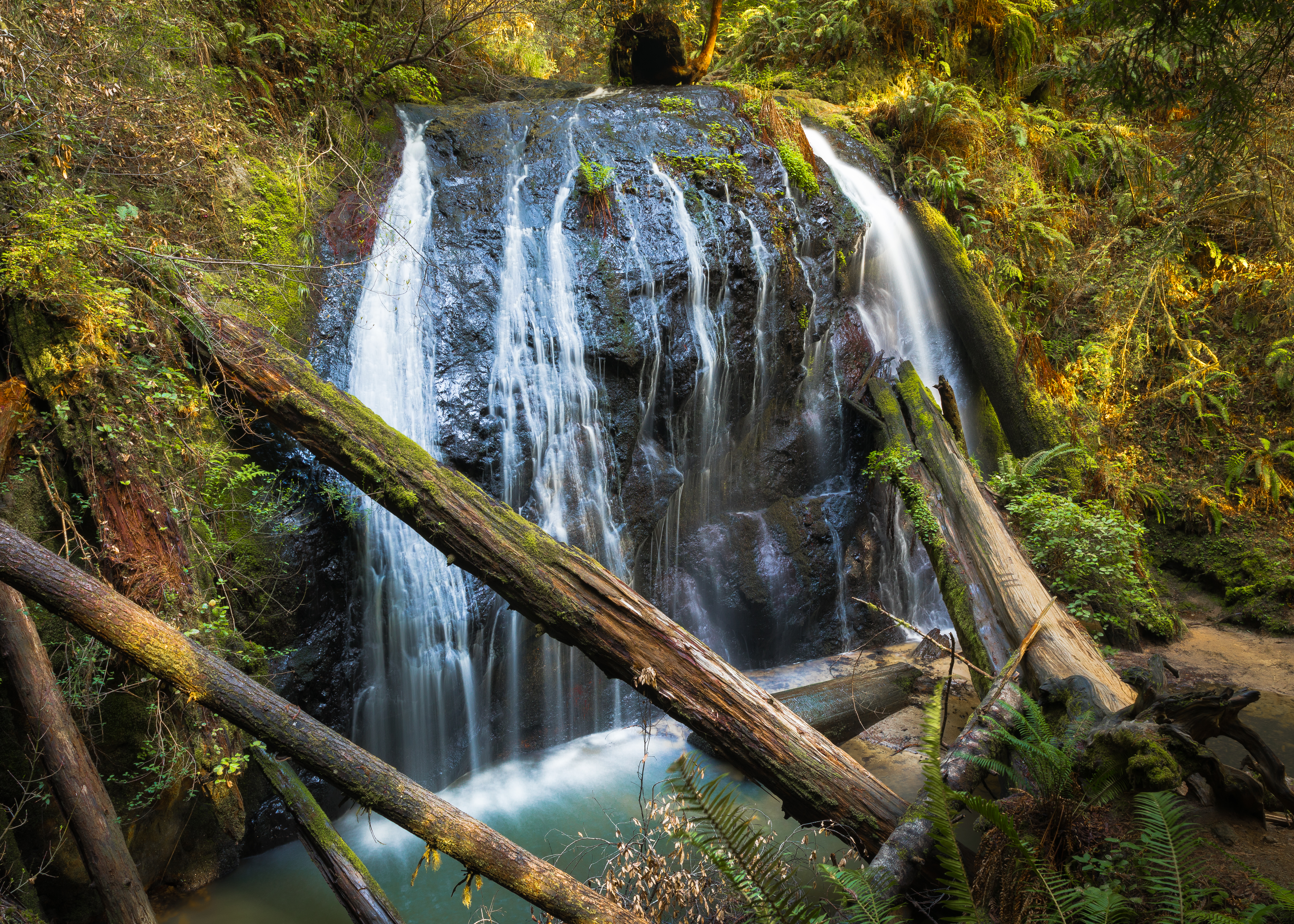 Waterfall in Russian Gulch State Park, Mendocino County, California